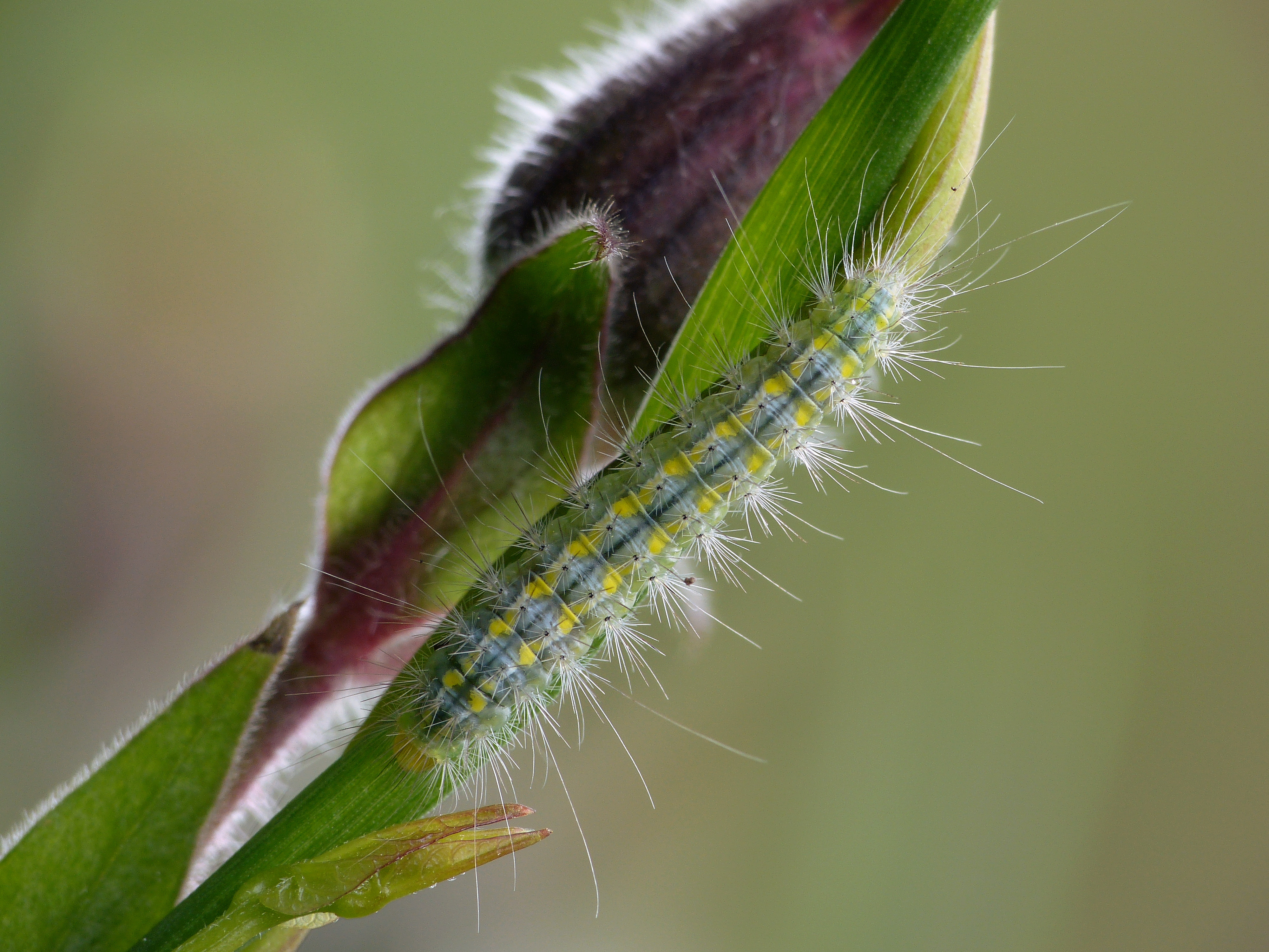 About 25 mm long at rest in grassy wildflower area of the garden. I thought it would be easy to id but a trawl through Porter has not helped!